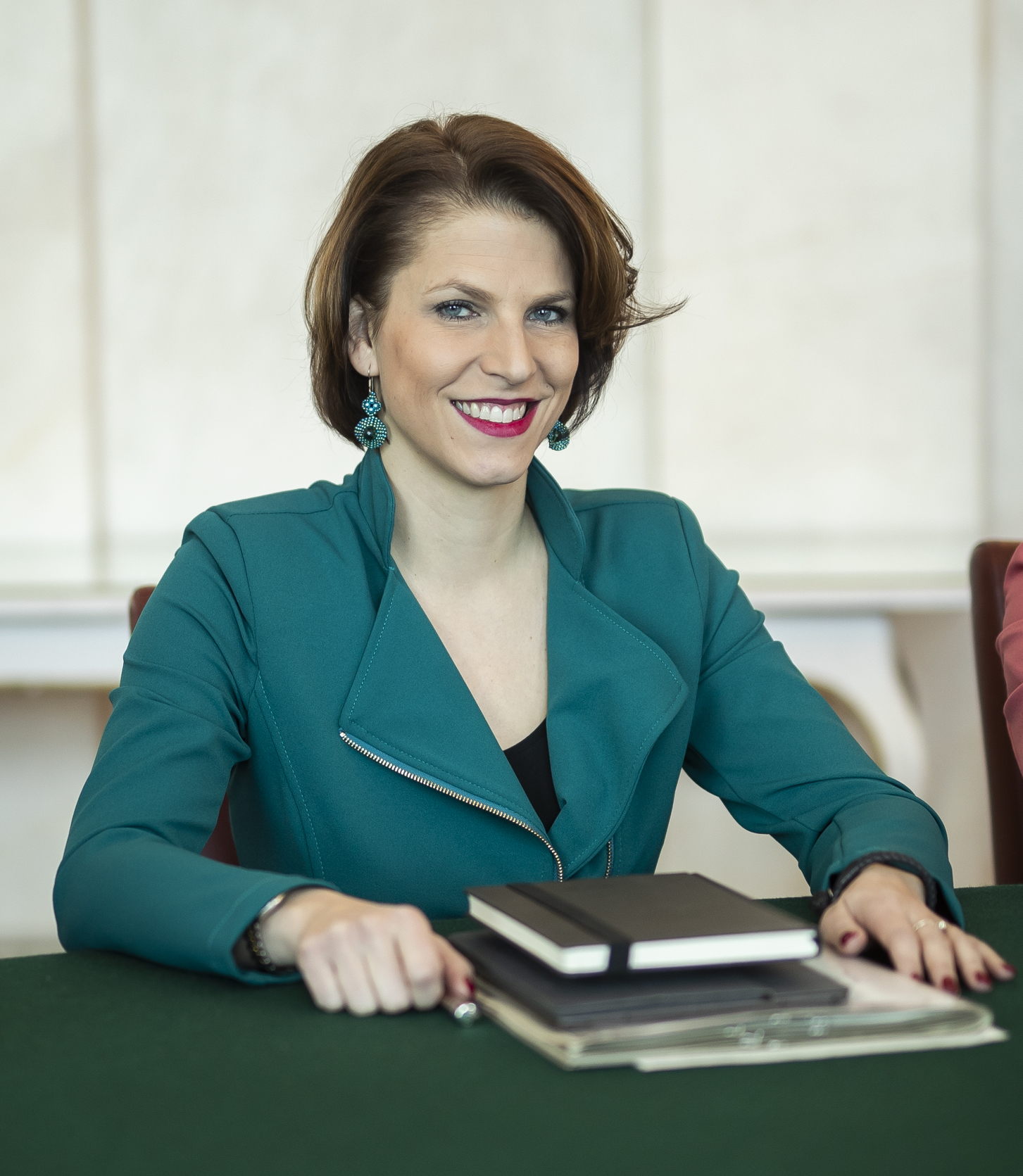 Fotocredit: BKA